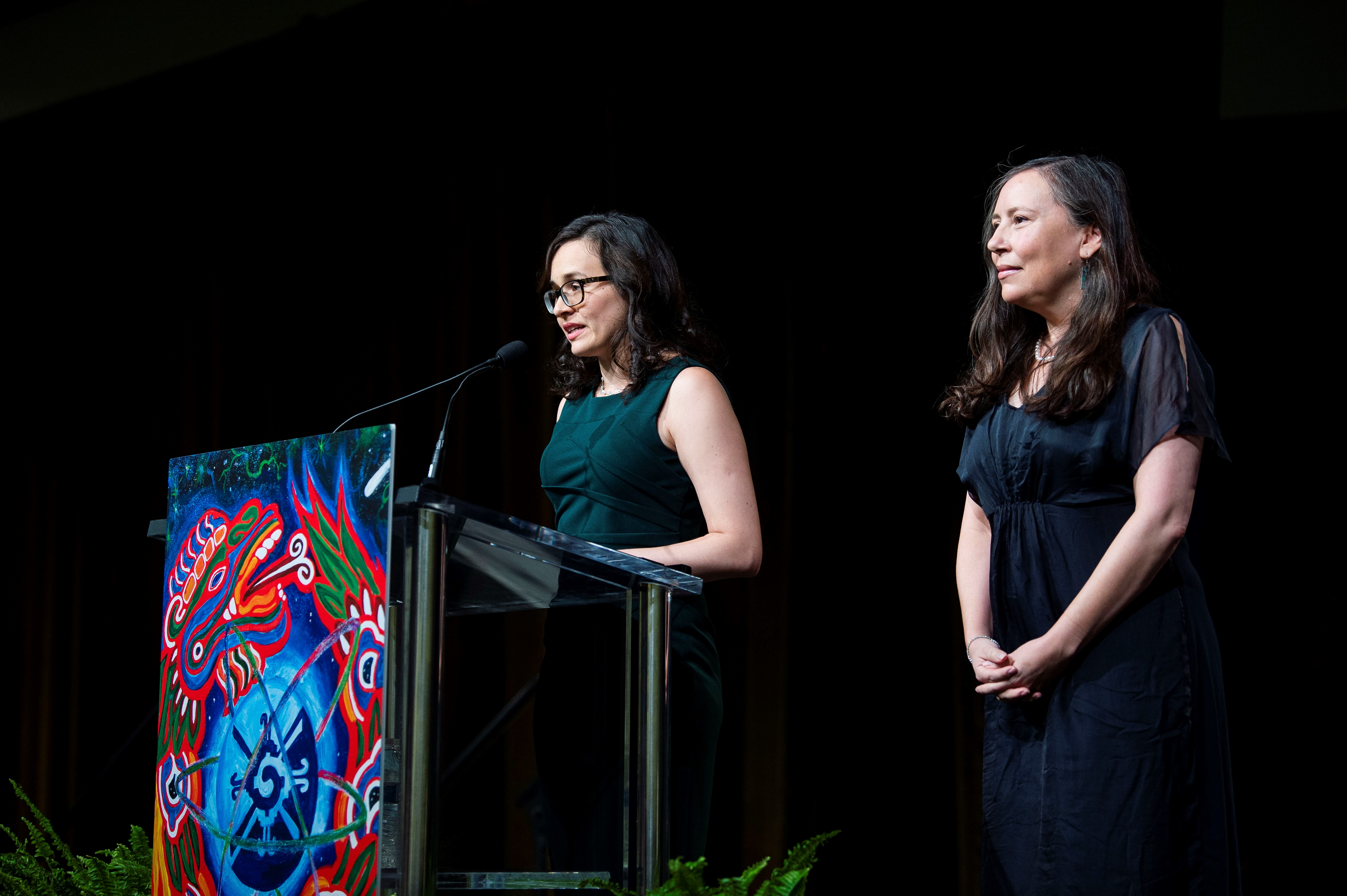 Dr. Aide Macias-Muñoz introduces Dr. Adriana Briscoe for the 2018 award for Distinguished Scientist. This award is presented by Society for Advancement of Chicanos/Hispanics and Native Amreicans in Science (SACNAS), at the annual conference: 2018 SACNAS - The National Diversity in STEM Conference in San Antonio, Texas. For more information visit .